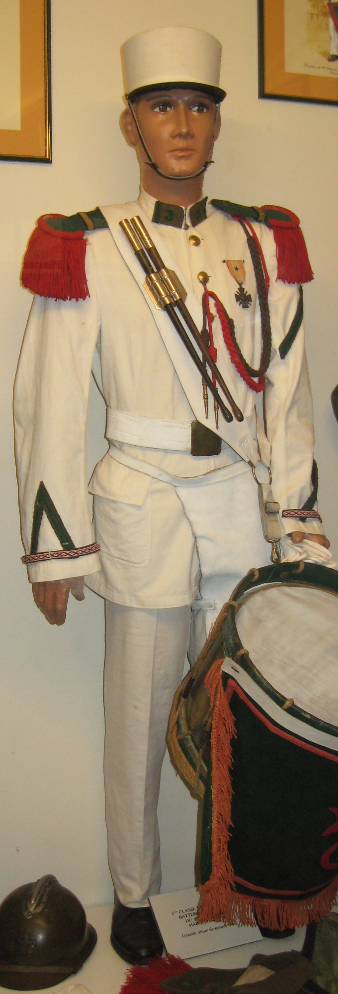 Drummer of the french foreign legion. 3rd infantry rgt (1931-1939), Morocco French foreign Legion Museum - Uniforms' part - Puyloubier (France)